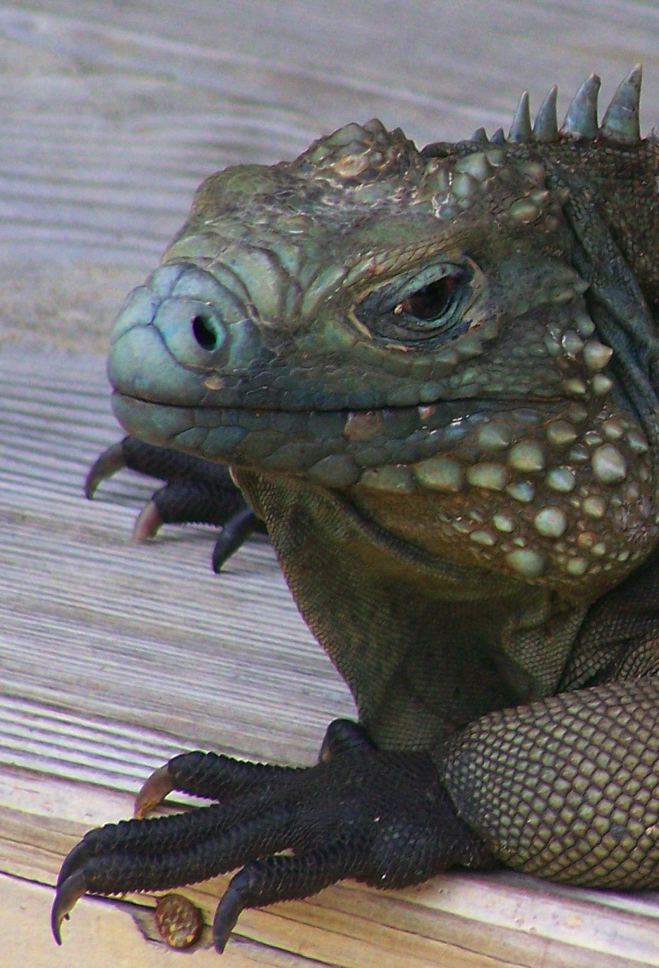 Blue Iguana resting on visitor's bench off Wilderness Trail at Queen Elizabeth II Botanic Park